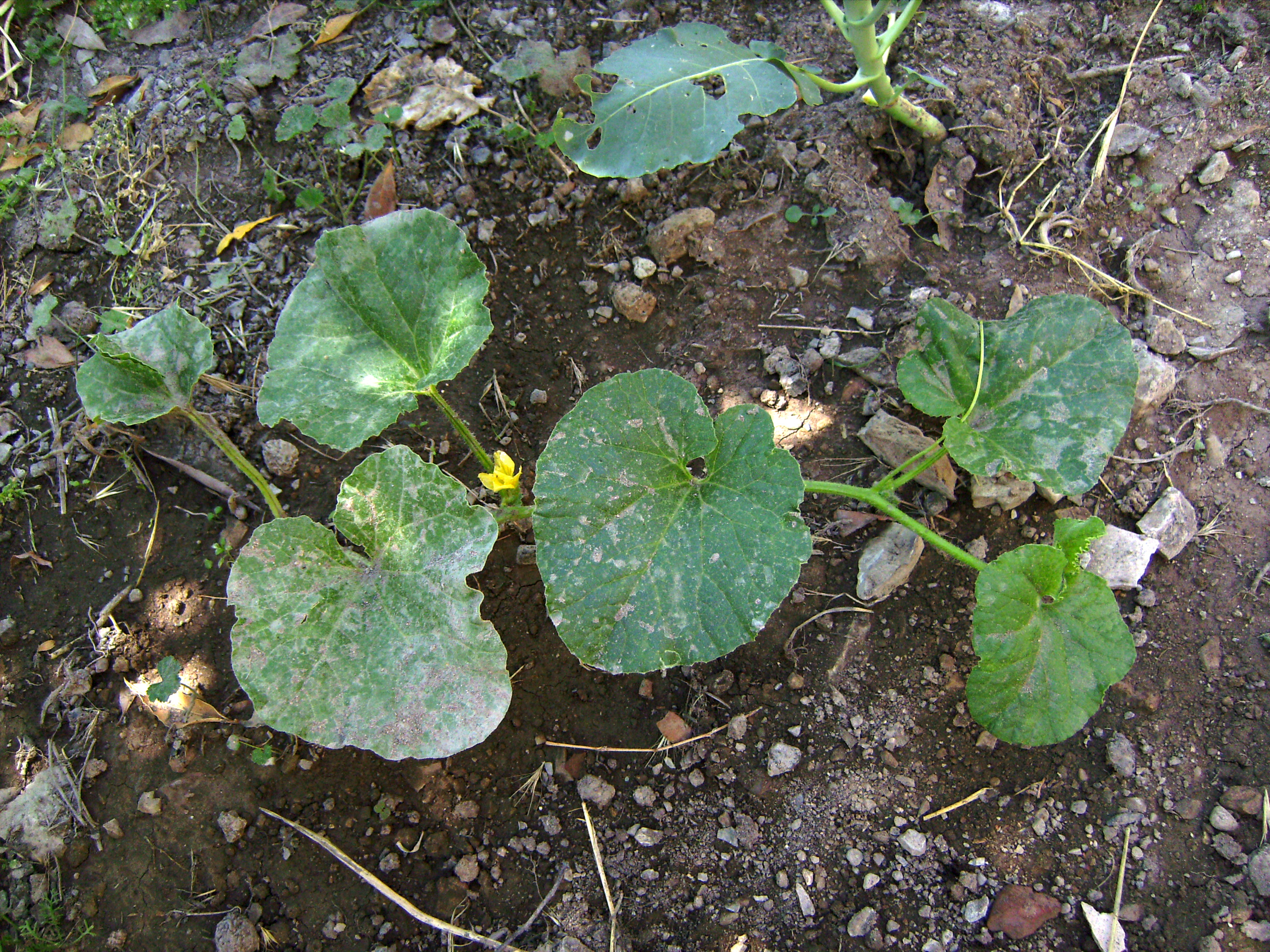 Muskmelon plant and flower (seed from USA), Castelltallat, Catalonia